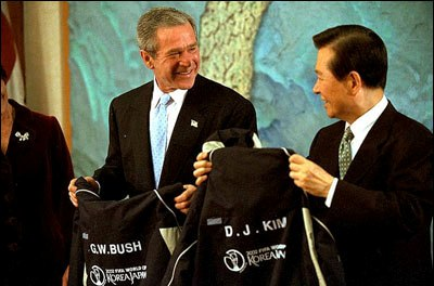 President George W. Bush and South Korean President Kim Dae-Jung show off their souvenir jackets from the World Cup committee during a reception at the Blue House, in Seoul, South Korea.